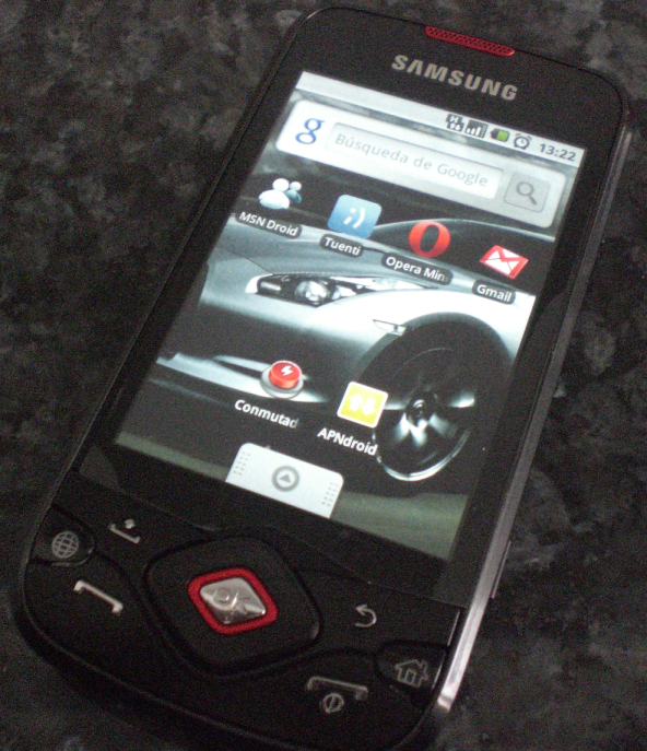 Spica